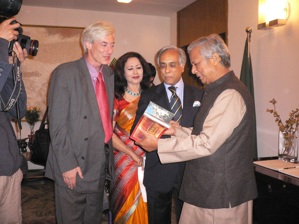 Laurence Brahm with Muhammad Yunus.